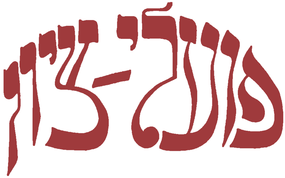 Logo of the Poalei Tzion Movement as seen on a banner from the early 20th Century